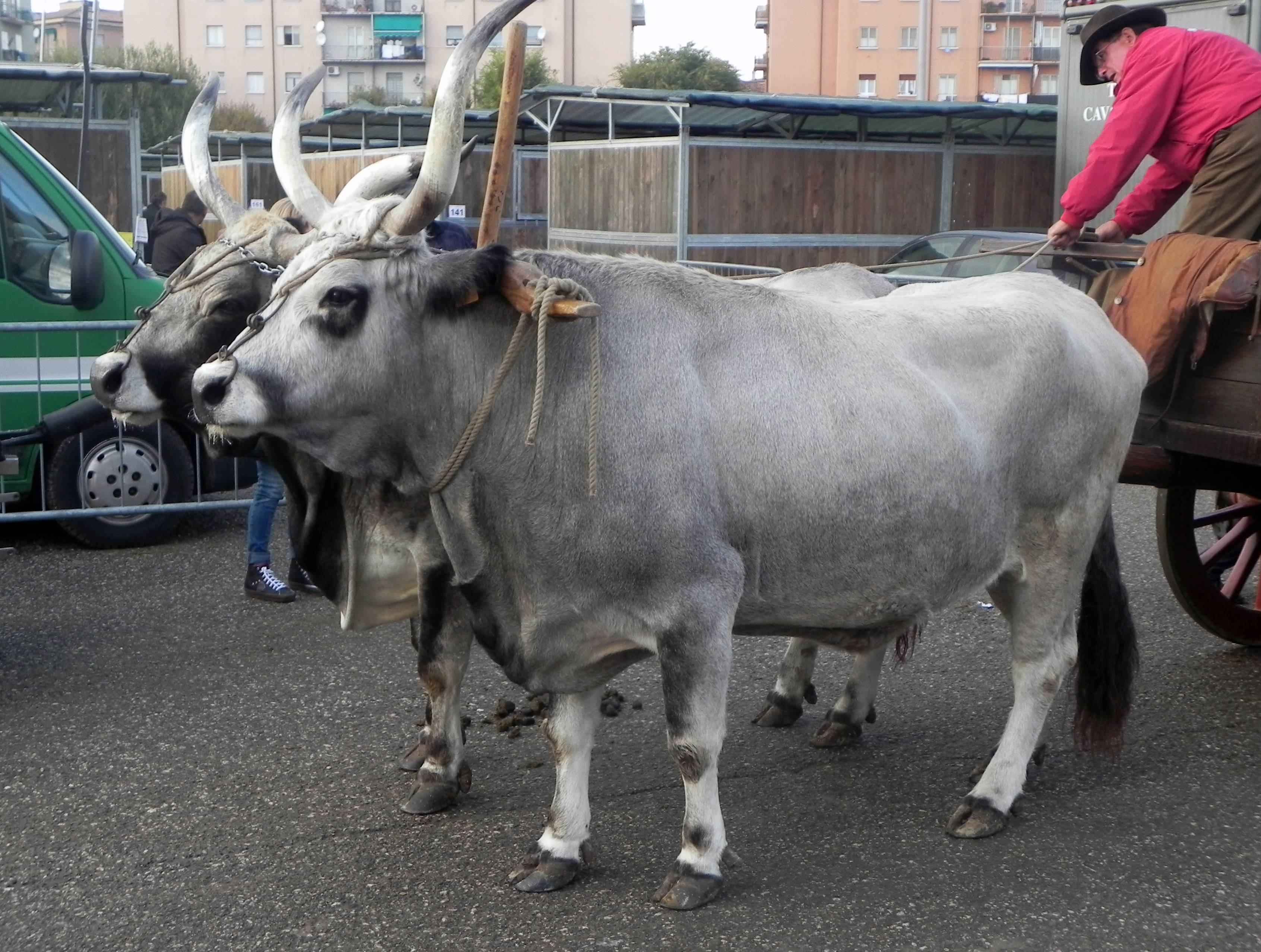 Maremmano oxen, yoked and hitched to an ox-cart, photographed at Fieracavalli, Verona, Italy, on 9 November 2014.